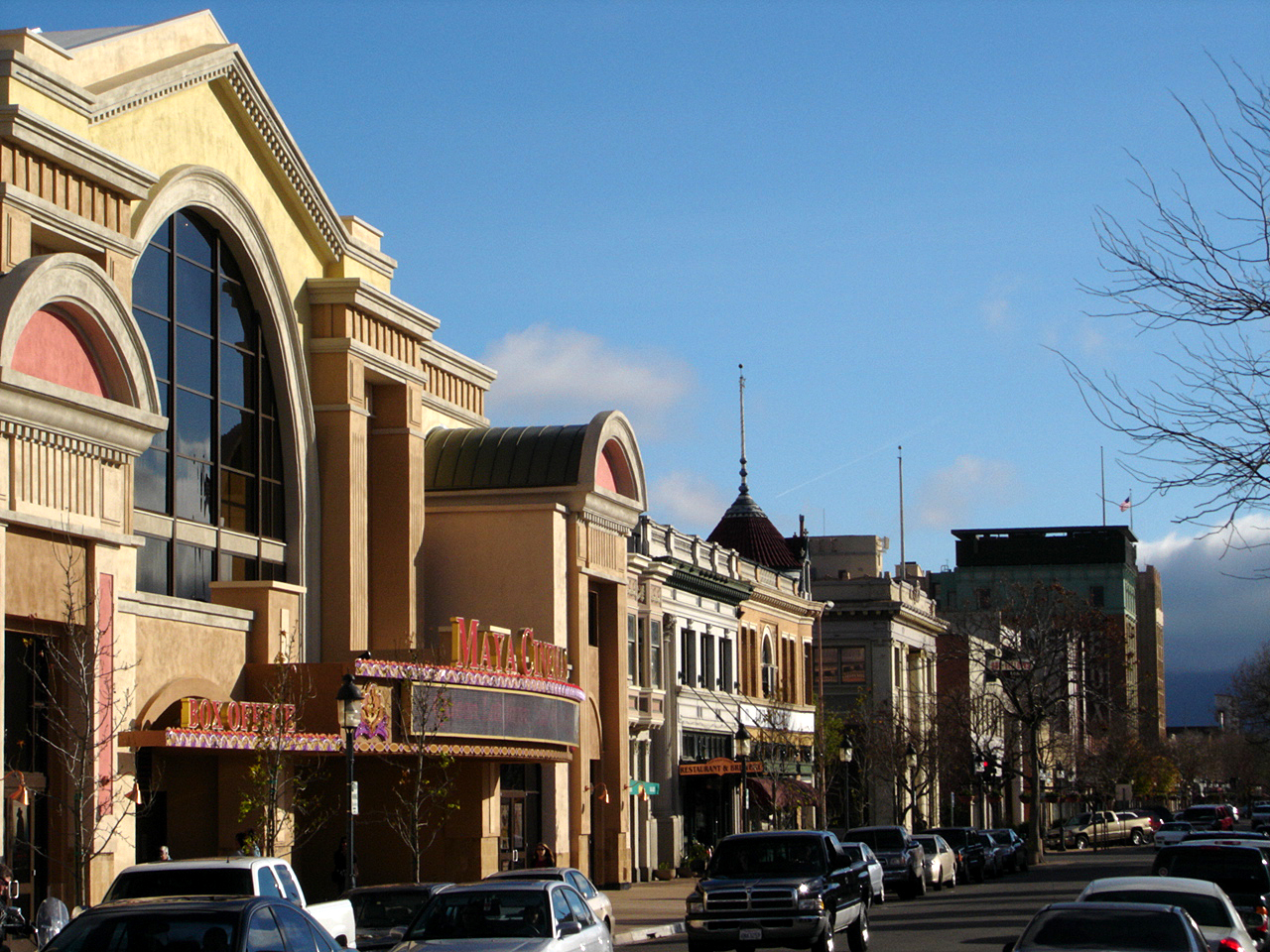 I shot the picture myself.